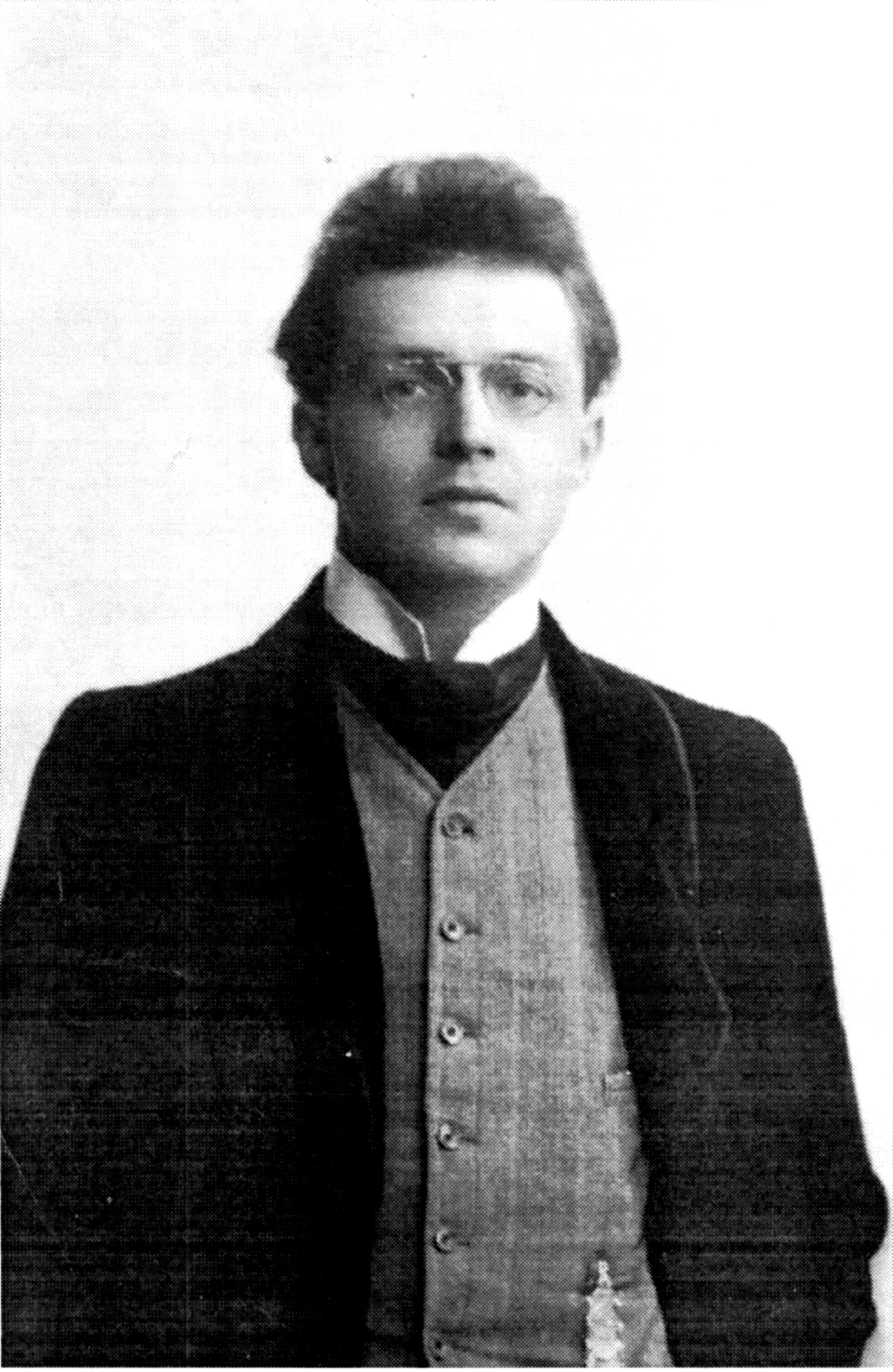 Aloys Fleischmann (1880-1964) was a Bavarian church musician and composer, who emigrated to Ireland in 1906.